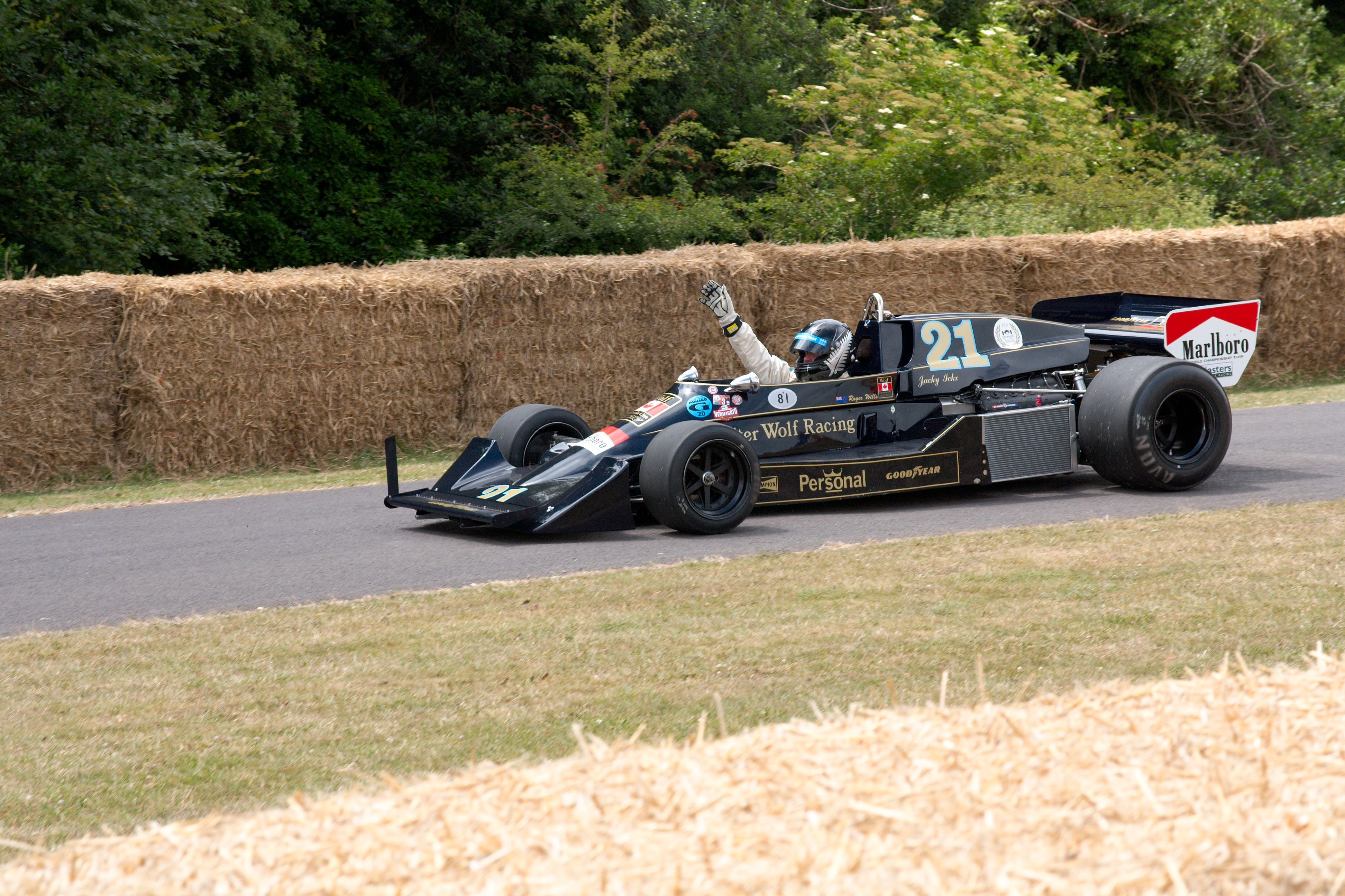 Wolf-Williams FW05